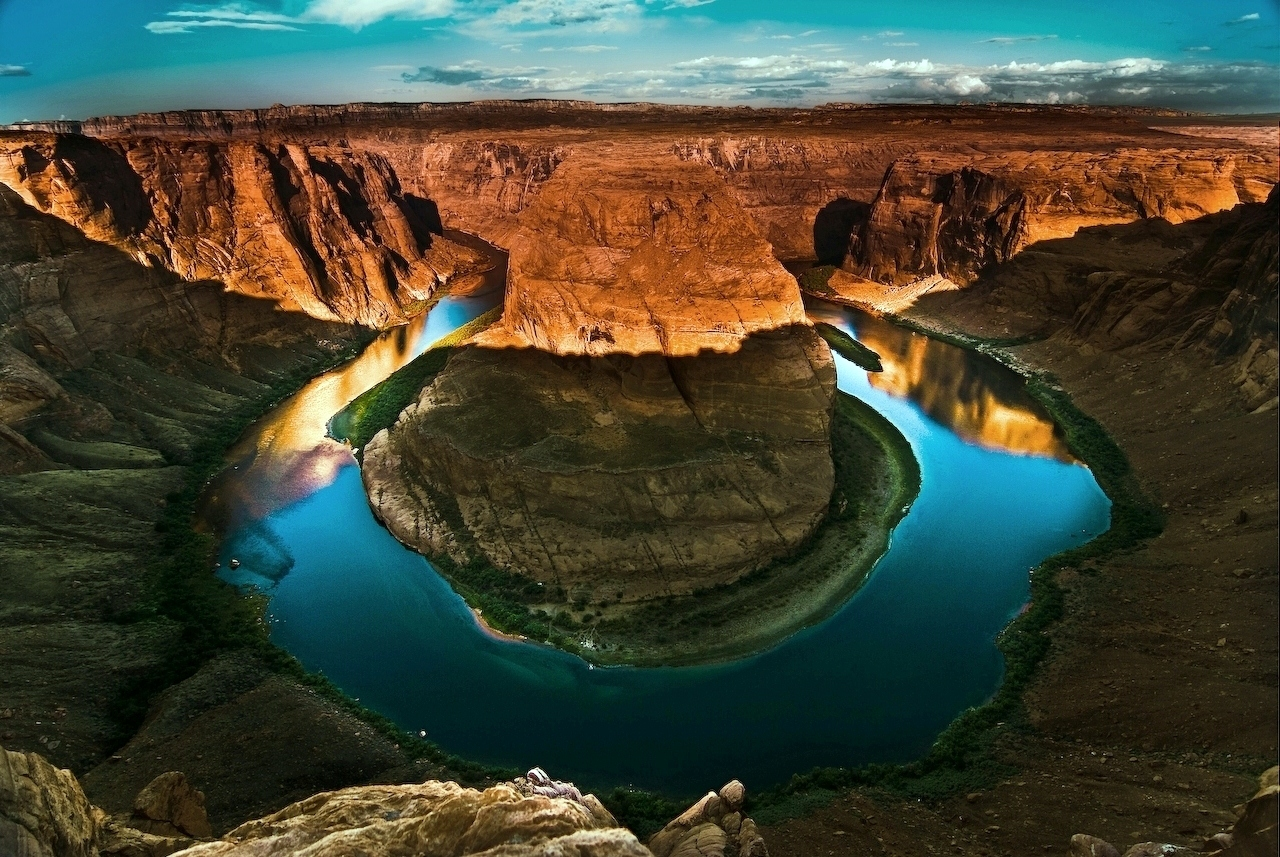 Horseshoe Bend (Arizona) at sunrise.